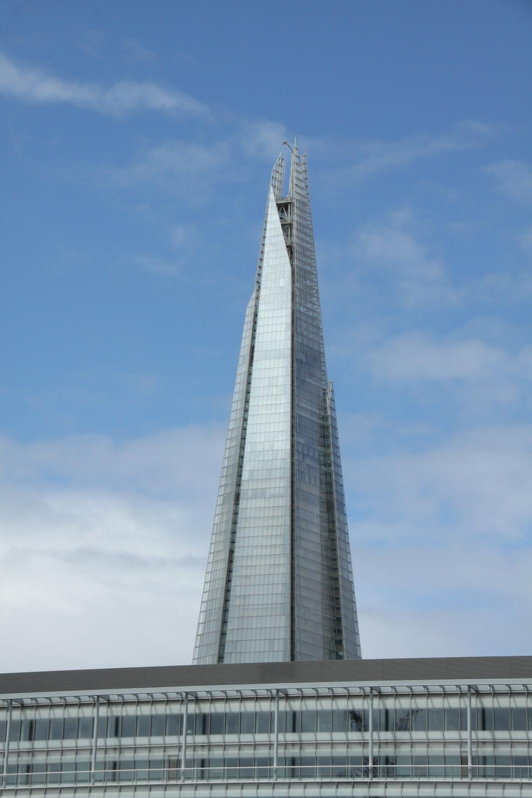 Shard London Bridge or The Shard (formerly known as London Bridge Tower or the Shard of Glass) is a skyscraper in Southwark, London. Standing almost 310 metres (1,020 ft) tall, it is currently the tallest building in the EU. It is also the second-tallest free-standing structure in the UK, after the 330-metre (1,083 ft) concrete tower at the Emley Moor transmitting station. The Shard replaced Southwark Towers, a 24-storey office building constructed on the site in 1975. Renzo Piano, the Shard's architect, worked with the architectural firm Broadway Malyan during the planning stage. The tower has 72 habitable floors, with a viewing gallery and open-air observation deck – the UK's highest – on the 72nd floor. It was designed with an irregular pyramidal shape from the base to the top, and is clad entirely in glass. Shard London Bridge's structure was completed in April 2012, and it will open to the public on 5 July 2012.